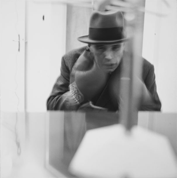 Wolleh´s documentation of Beuy´s Felt TV